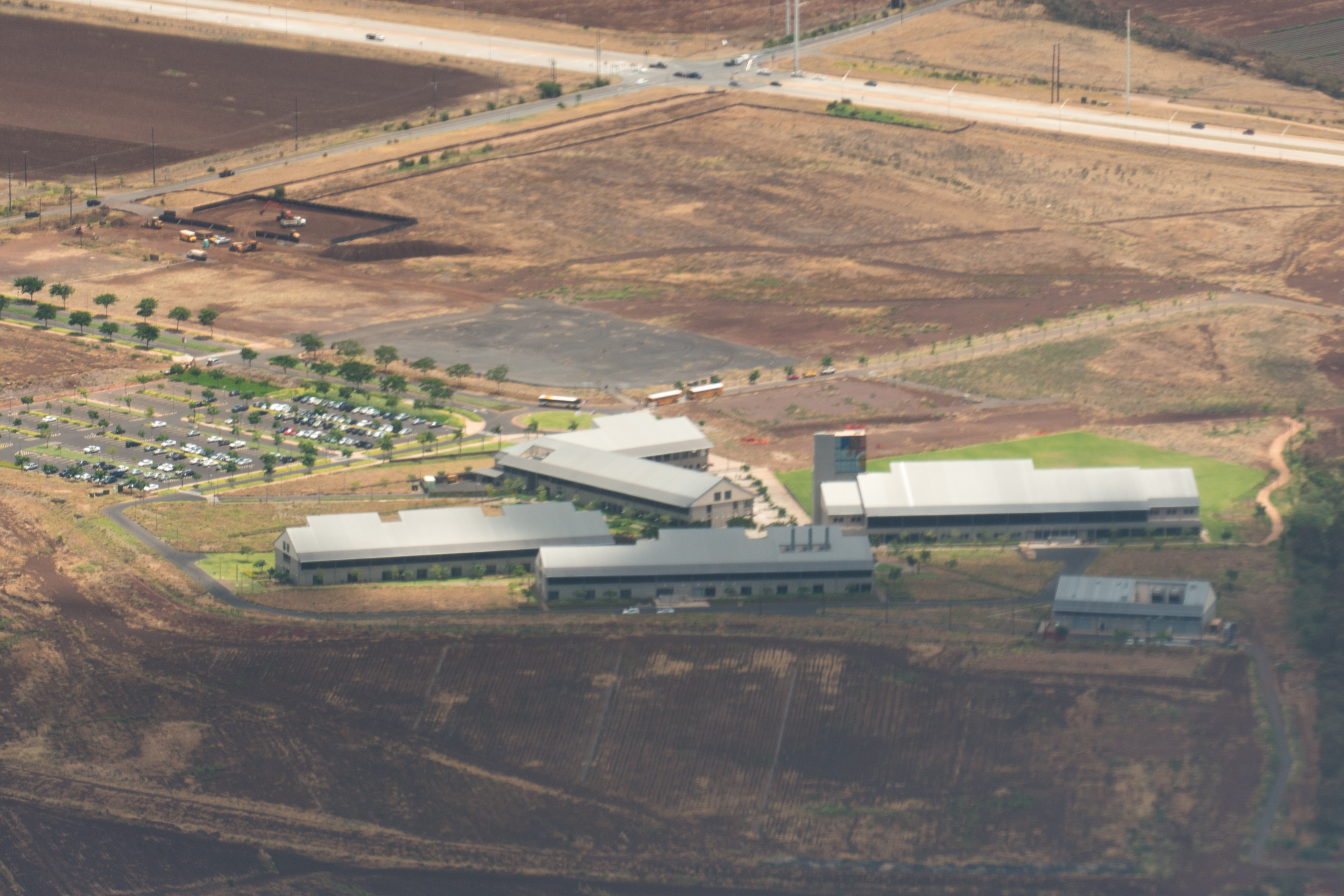 Aerial view of University of Hawaii - West Oahu